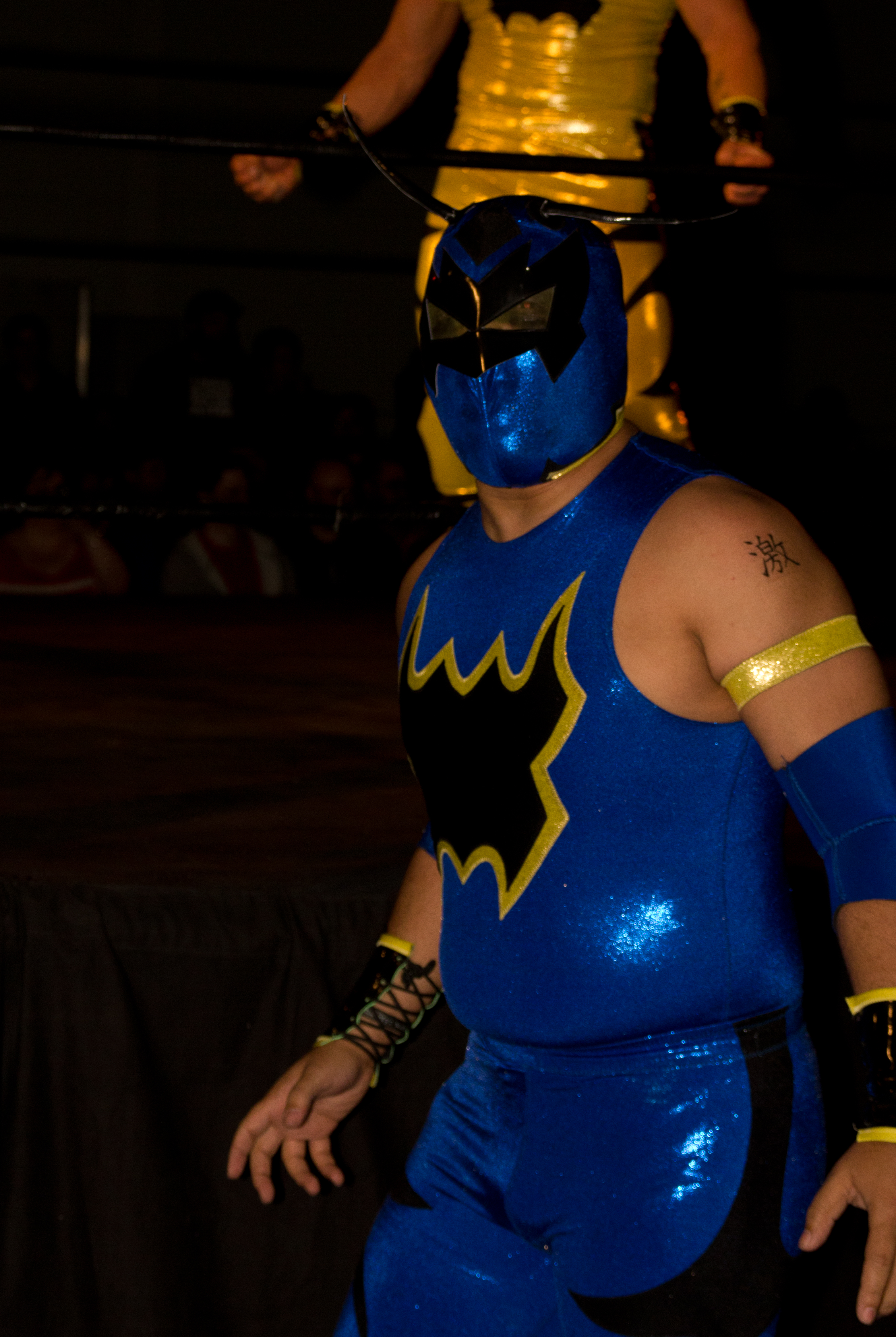 Professional wrestler assailANT at a CHIKARA event.